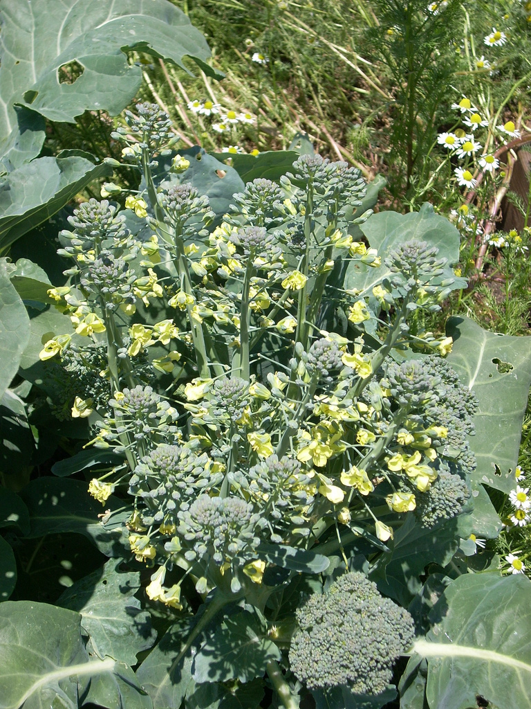 Broccoli flowers, California